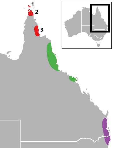 Distribution map of all Ornithoptera species within Australia. Red – Ornithoptera priamus 1 – Ornithoptera priamus poseidon 2 – Ornithoptera priamus pronomus 3 – Ornithoptera priamus macalpinei Green – Ornithoptera euphorion Purple – Ornithoptera richmondia